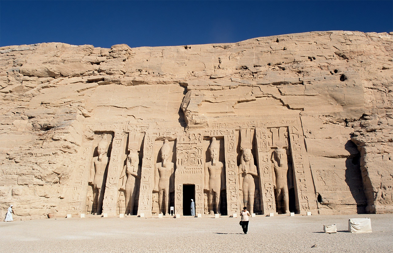 Temple of Nefertari in Abu Simbel, Egypt